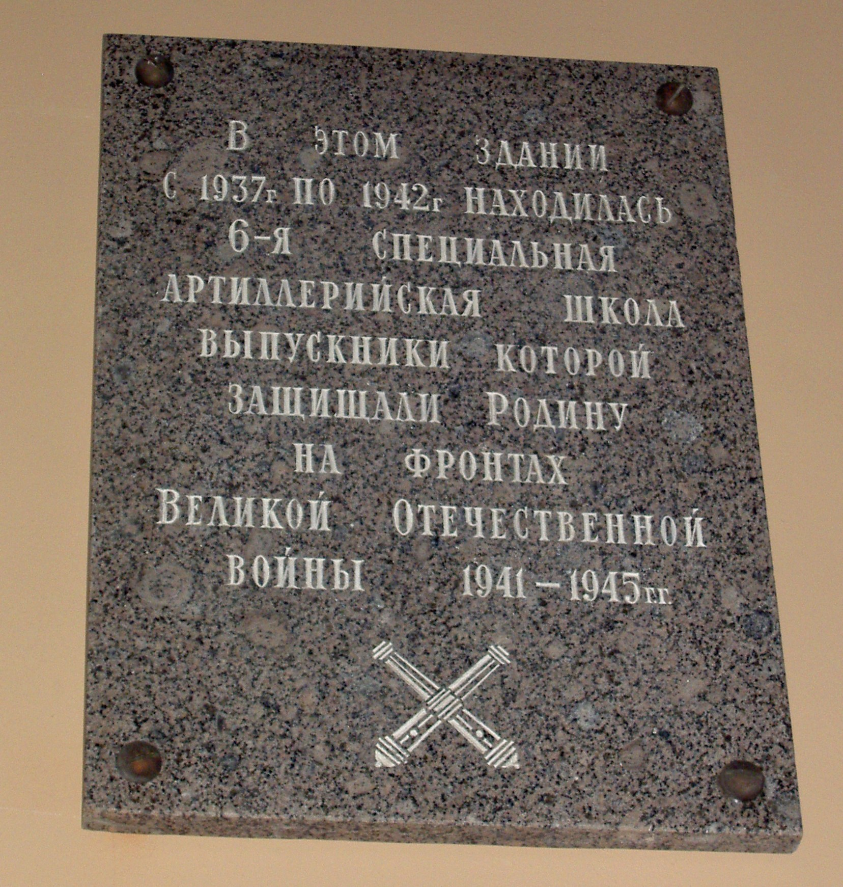 Aide board at SPIIRAS building at Vasilyevsky island line №14 in Saint Petersburg.